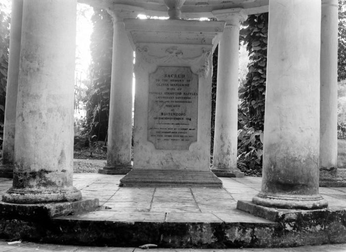 Negative. Memorial to Olivia Mariamne Fancourt (née Devenish), the first wife of Thomas Stamford Raffles, erected by him along the Kanarielaan in the National Botanical Gardens (now the Bogor Botanical Gardens) that he founded in Buitenzorg (now Bogor), West Java, Indonesia. Olivia died in Java on 26 November 1814.